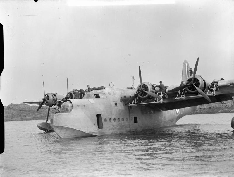 Royal Air Force Coastal Command, 1939-1945. Groundcrew performing a routine overhaul on a Short Sunderland Mark I of No. 210 Squadron RAF, moored in Oban Bay, Scotland.